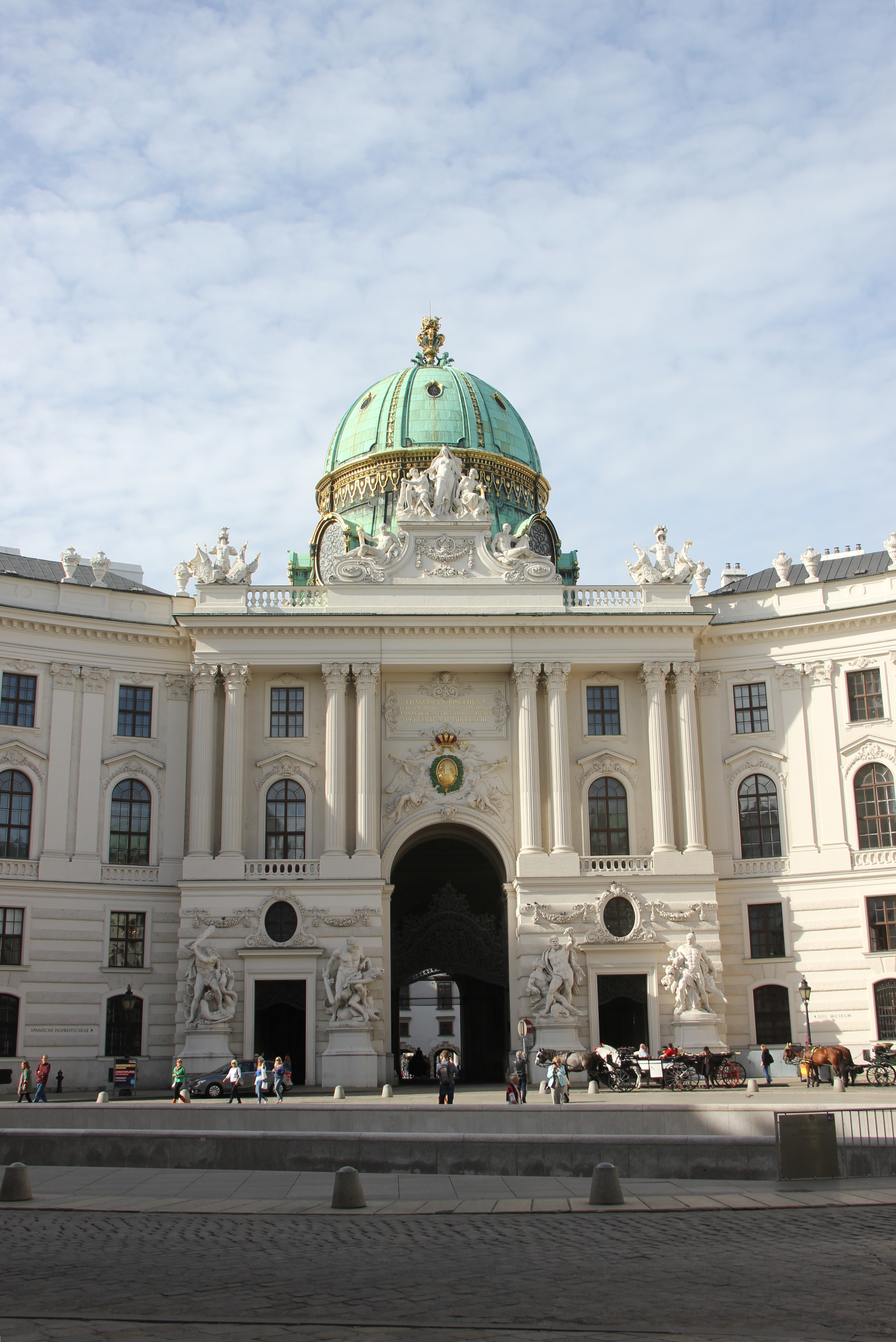 I went to the Sisi museum but they don't let you take photos inside. They had some imperial apartments on display, the famous Sisi portraits, and some reproductions of her dresses.